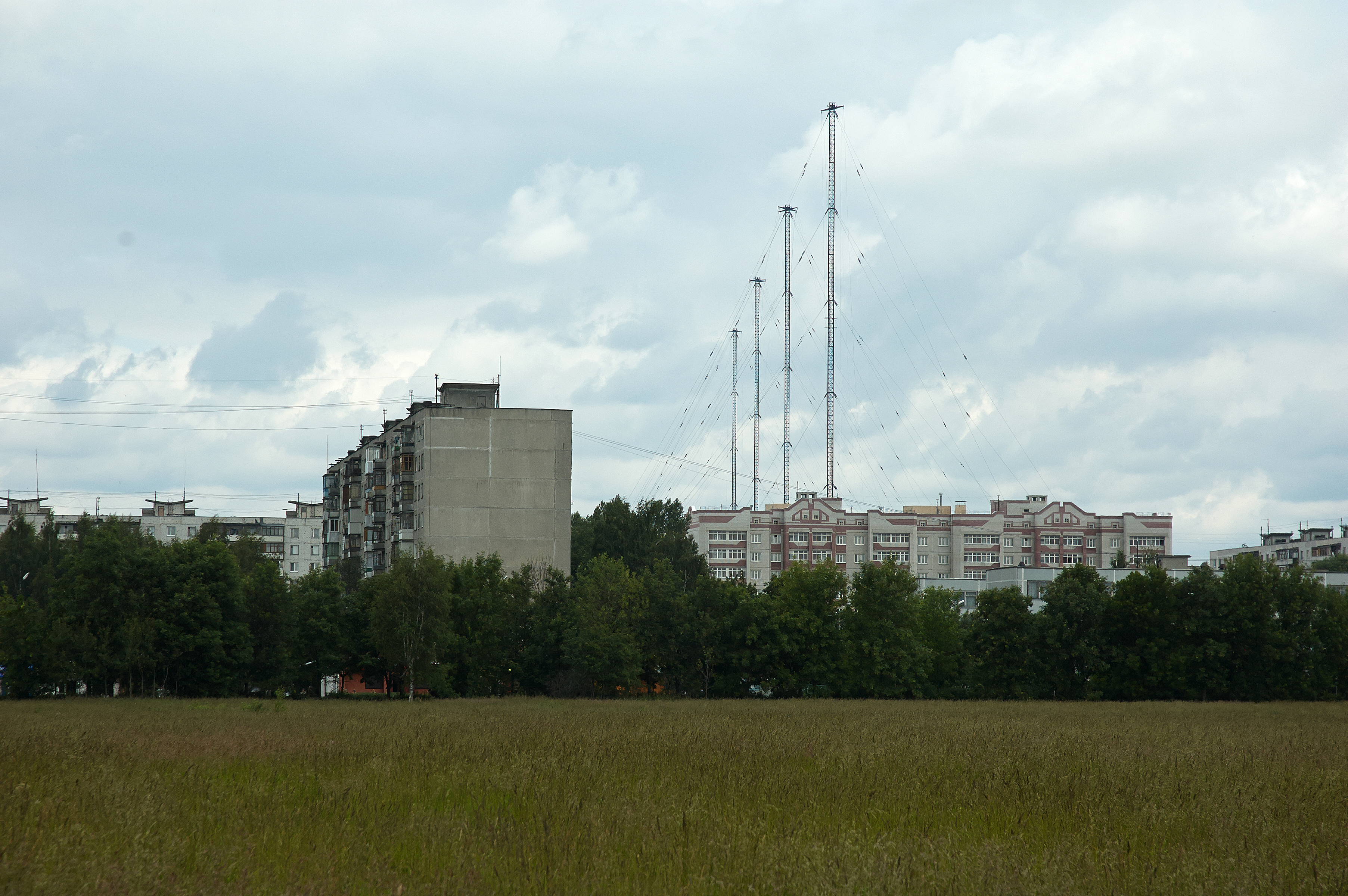 Radio station Communist International.